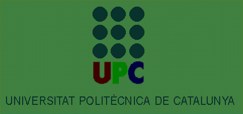 bayer pattern image result